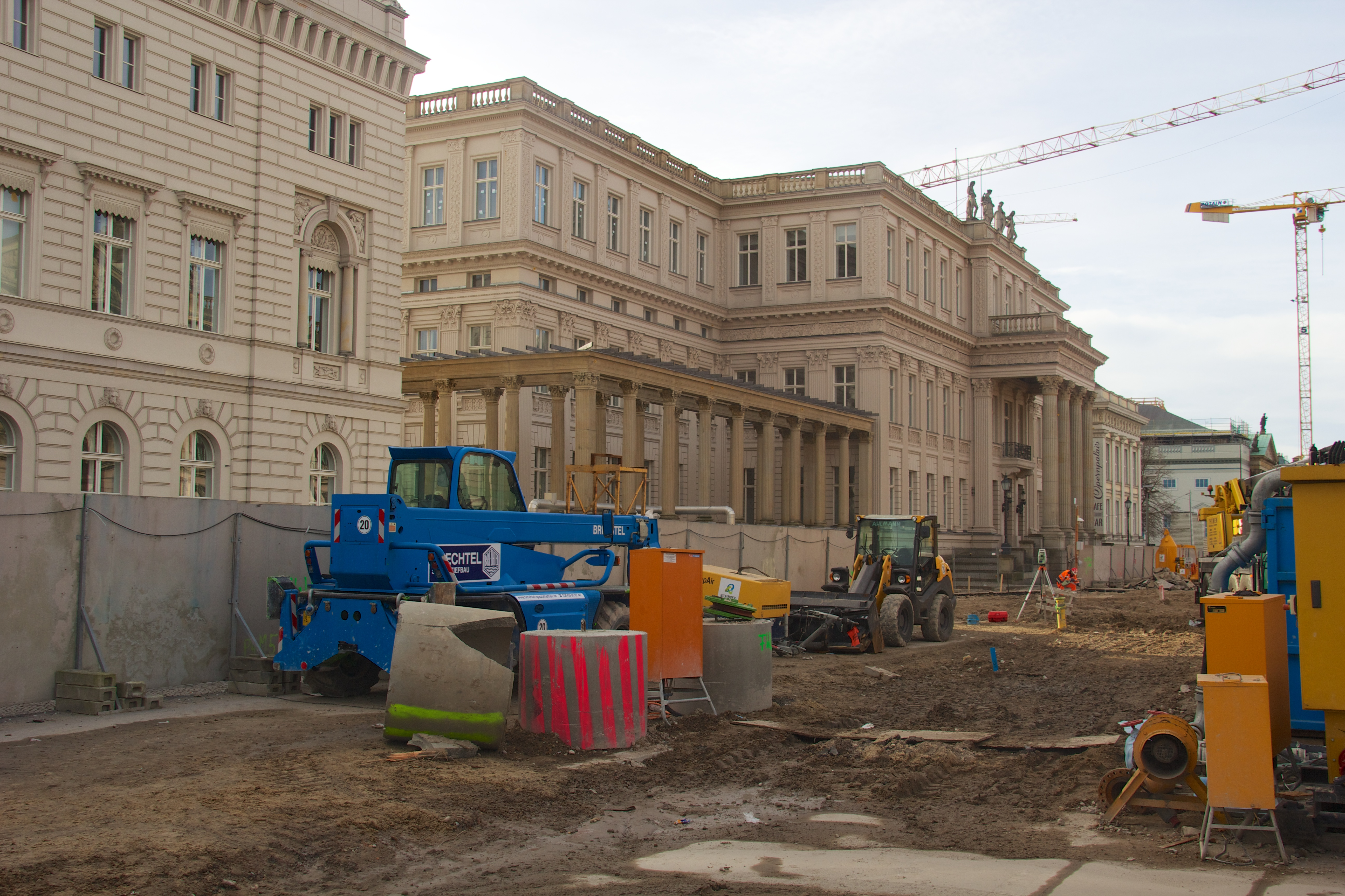 Kronprinzenpalais, Berlin, 2014.